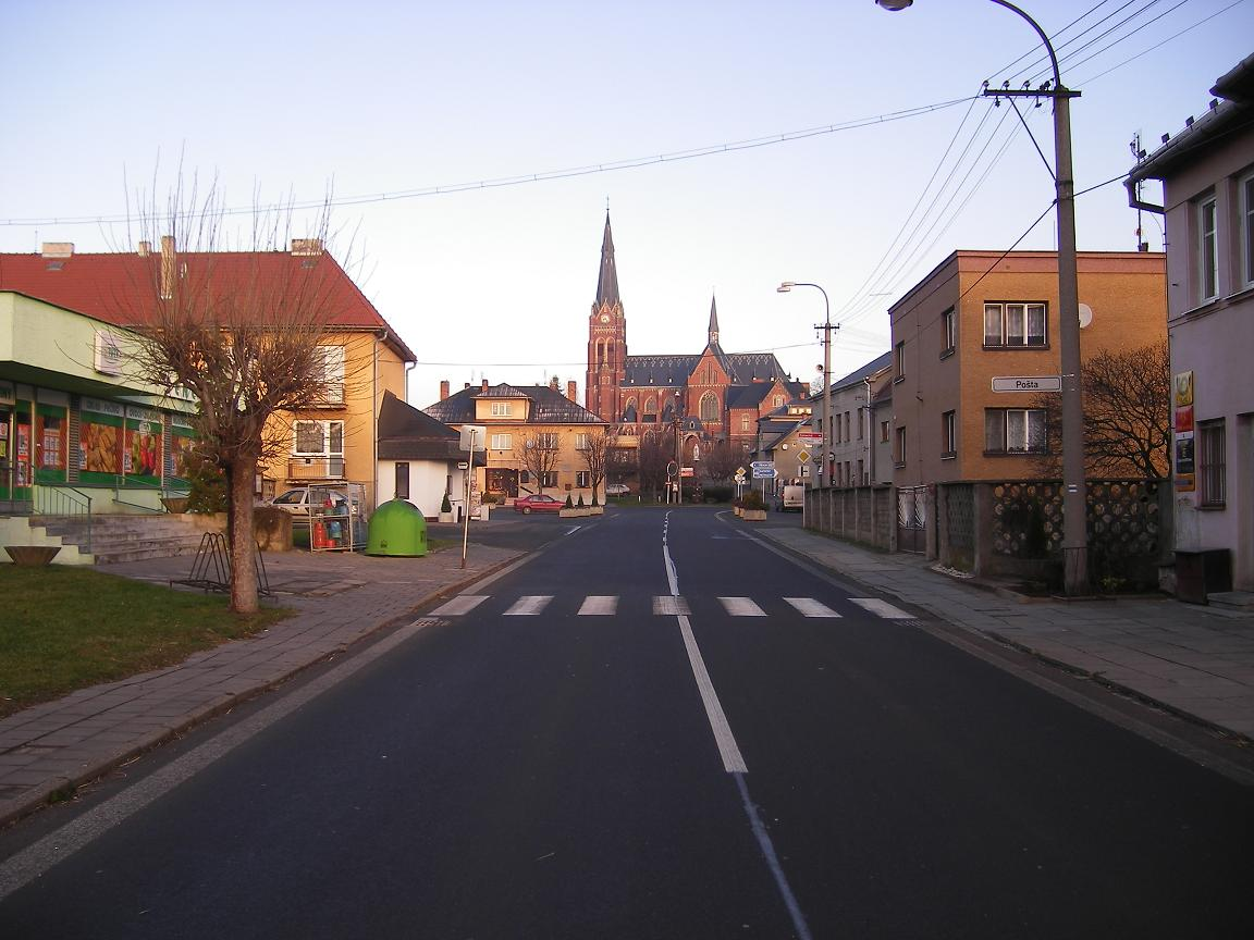 Main street in Sudice. In the background: catholic John the Baptist-church in Sudice